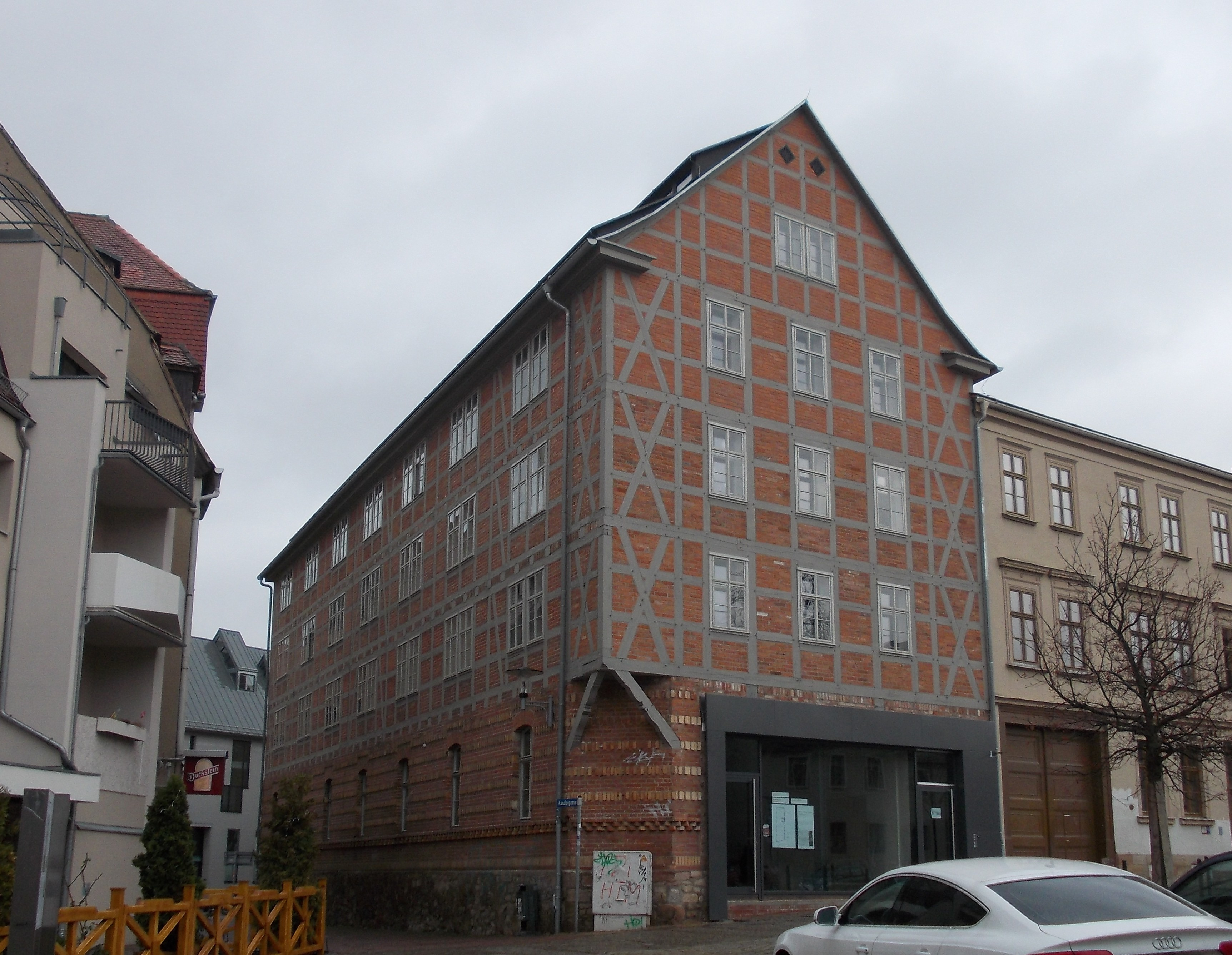 Half-timbered building at Domplatz/Kanzleigasse in Halle/Saale (Saxony-Anhalt)